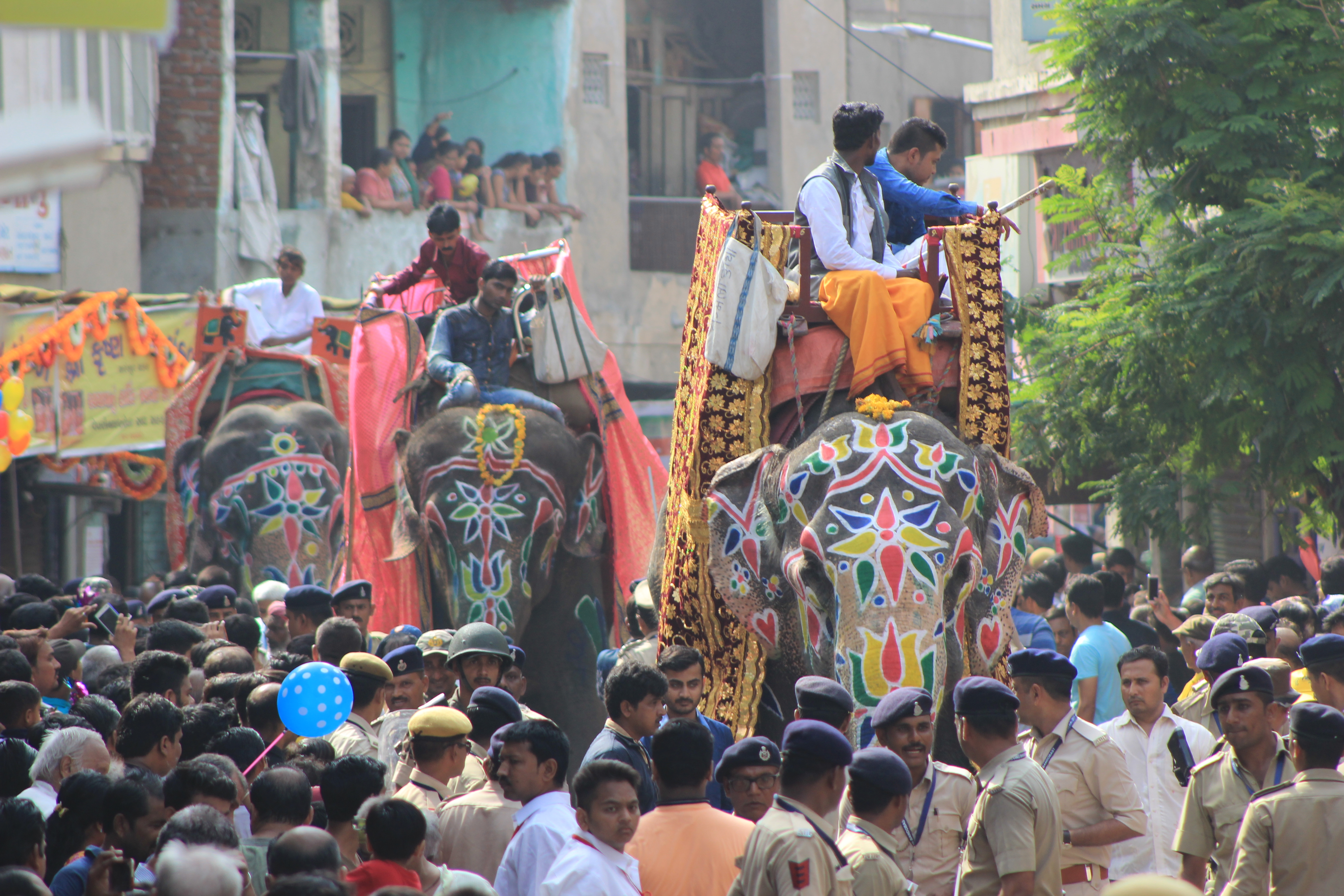 Rathyatra Ahmedabad